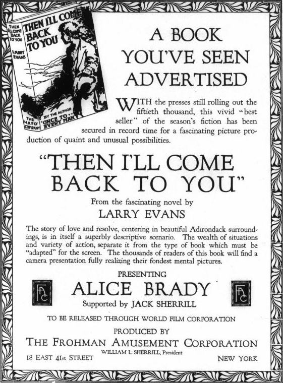 Advertisement for the American romance drama film Then I'll Come Back to You (1916), on page 30 of the February 4, 1916 Variety.